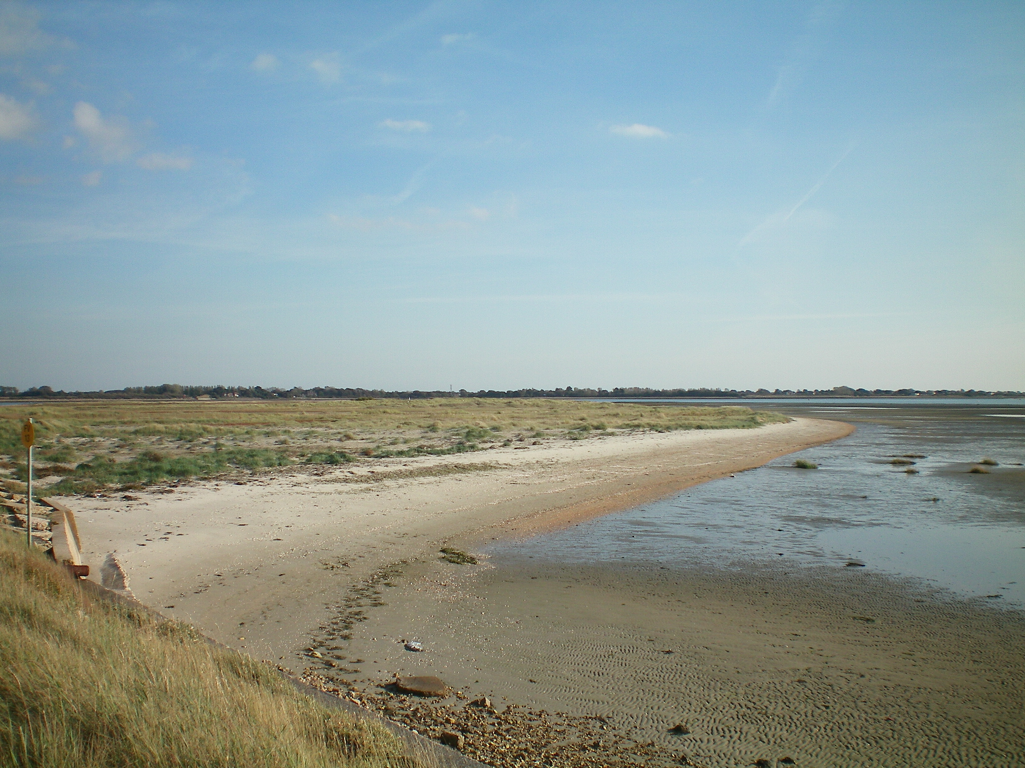 Pilsey Island seen from Thorney Island, West Sussex, England